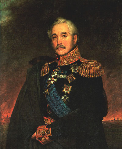 Alexey Grigoryevich Scherbatov 1-st (23.02.1776 – 18.12.1848) russian general